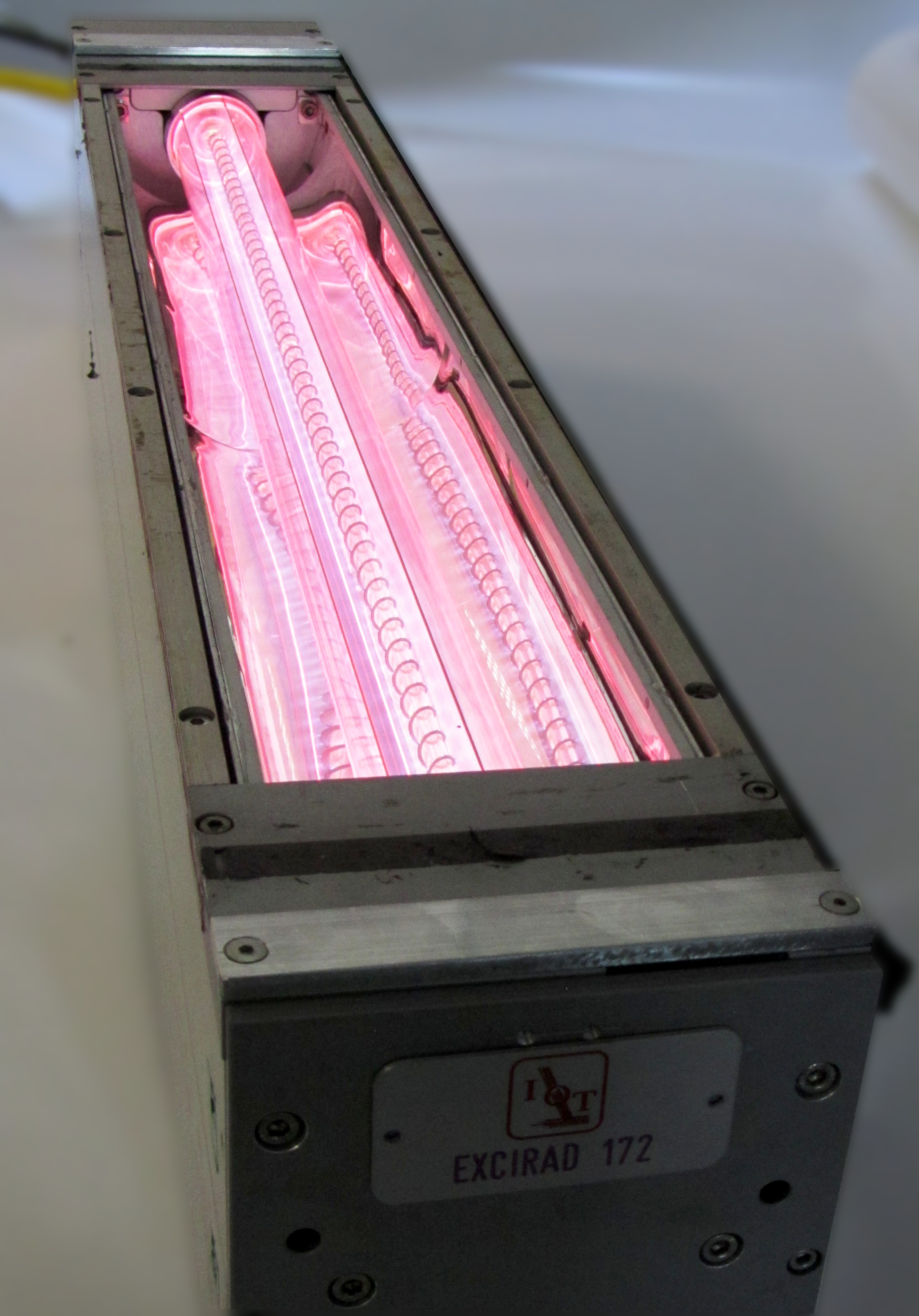 Commercial used 172nm excimer lamp for printing industry